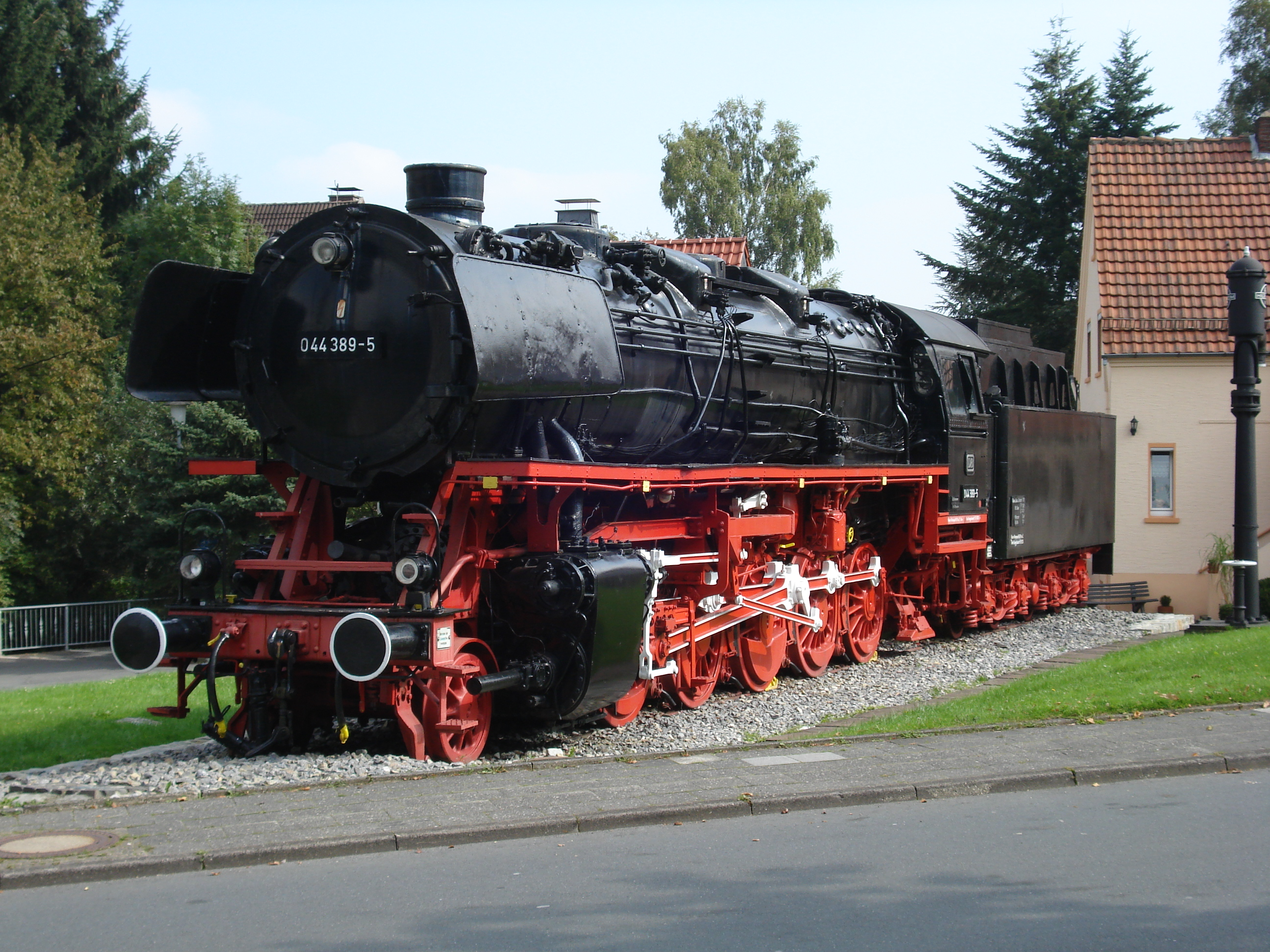 DRG Class 44 steam locomotive in Altenbeken